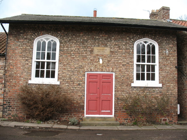 Former chapel in Heslington Situated just off the main street of Heslington village, this former Wesleyan chapel dates from 1844. Now converted for domestic use.